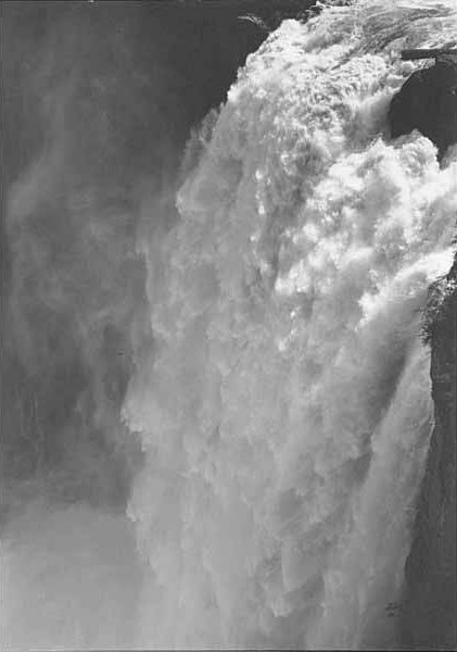 Thousand Thunders Photographer: Koike, Kyo Subjects (LCTGM): Waterfalls--Washington (State) Digital Collection: Modern Photographers Collection Item Number: MPH362 Persistent URL: Visit Special Collections page for information on ordering a copy. University of Washington Libraries. Digital Collections